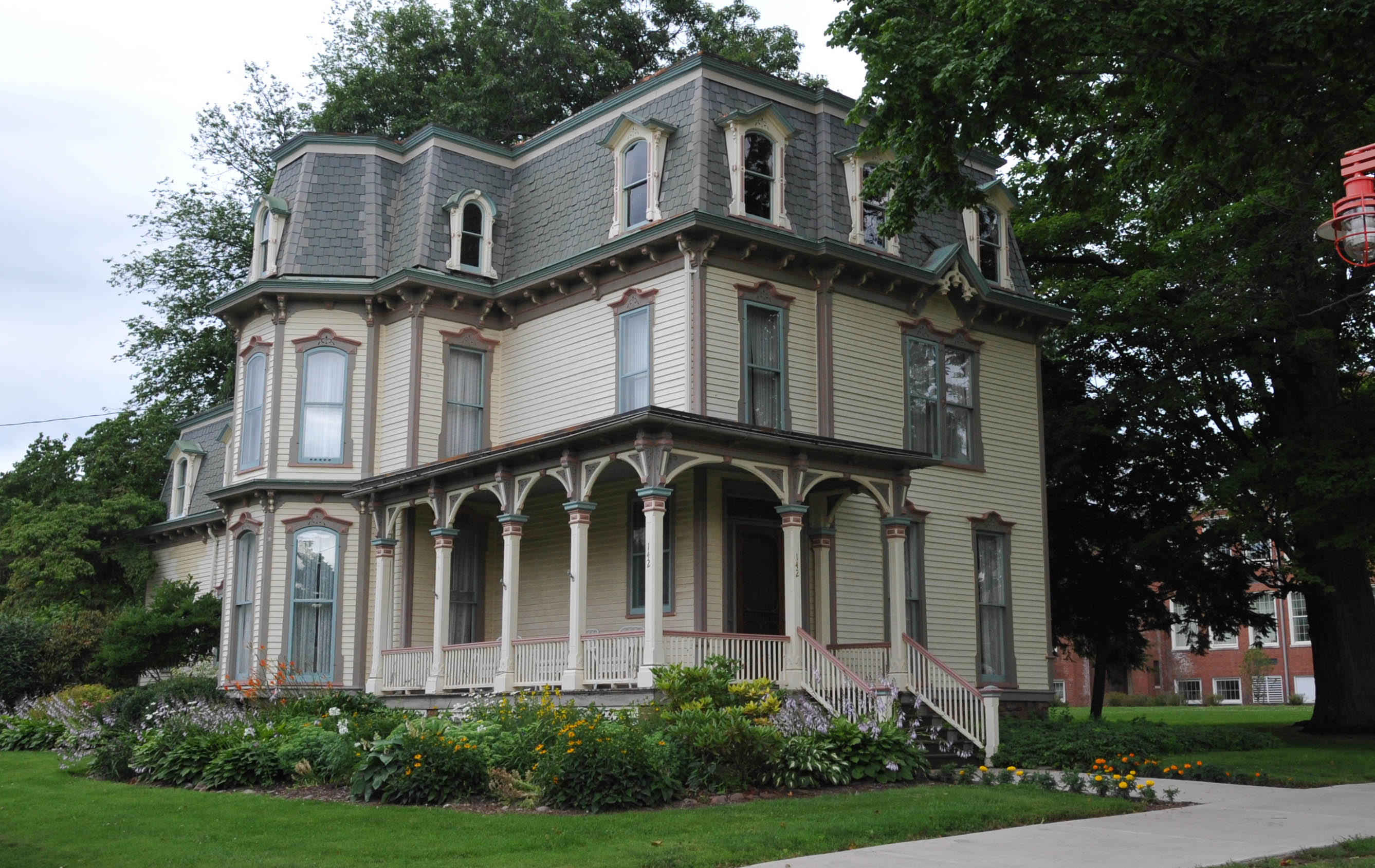 FRENCH SECOND EMPIRE HOUSE BUILT IN 1877 BY SUCCESSFUL BROCKPORT MERCHANT TAILOR AND CIVIC LEADER. NOW USED AS THE ALUMNI HOUSE OF THE ADJACENT TEACHERS COLLEGE